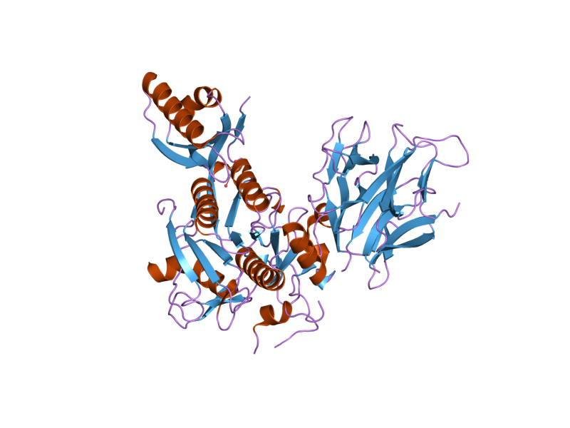 Cartoon representation of the molecular structure of protein registered with 2p4e code.